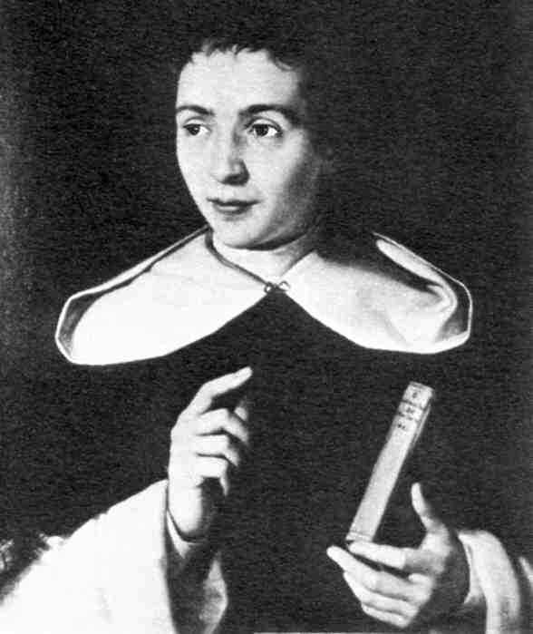 This is a portrait of Father Samuel Charles Mazzuchelli which depicts him at about the age of 18, when he first entered the Dominican Order.